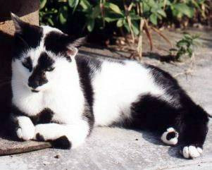 Author: Sarah Hartwell, . Image of Radial Hypoplasia female cat ("squitten" or "twisty cat") photographed in Chelmsford, Essex, UK.Messybeast 17:46, 5 October 2006 (UTC)